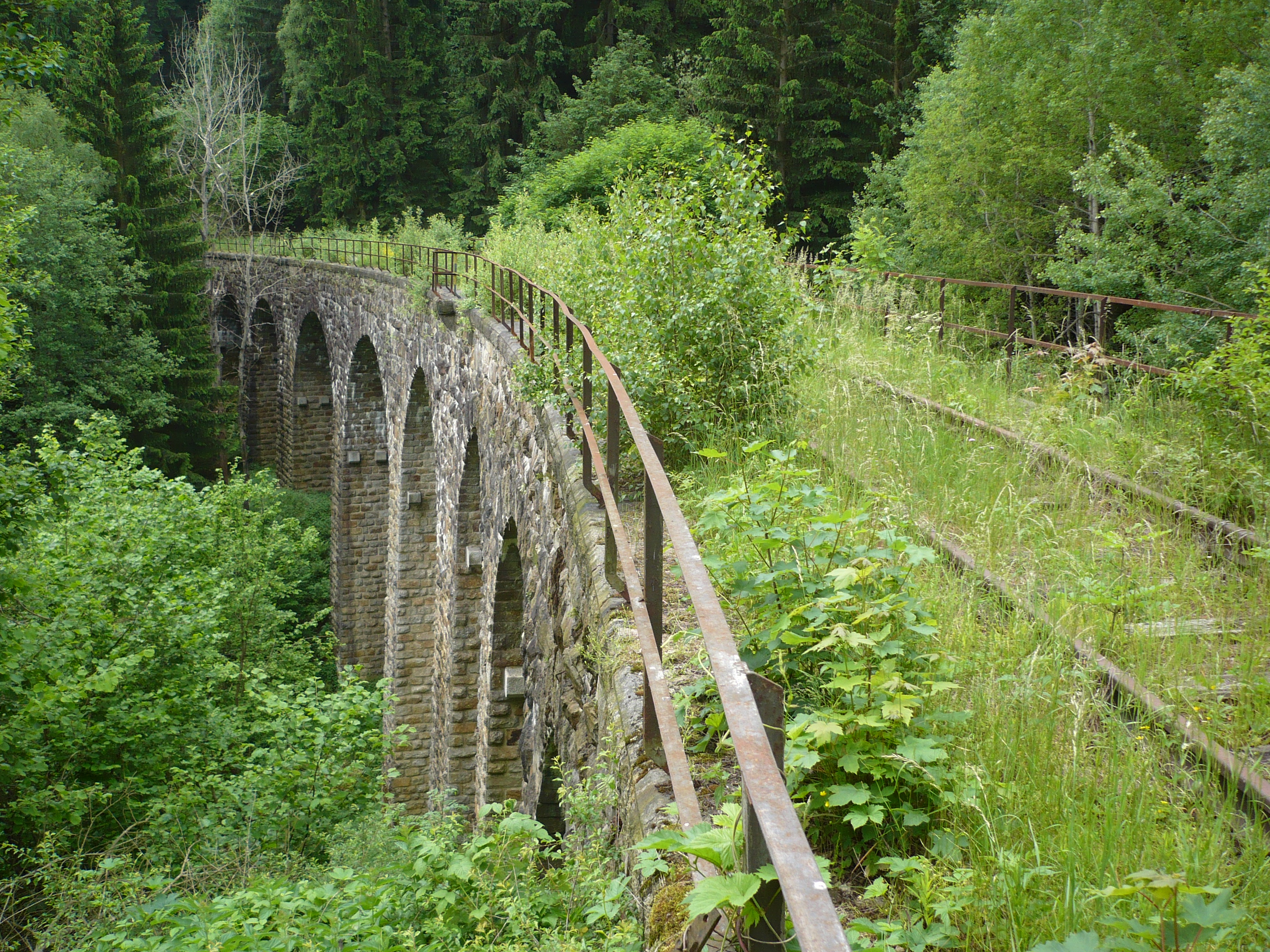 Abandoned railway bridge between Krásný Jez and Ležnice (view from the north)